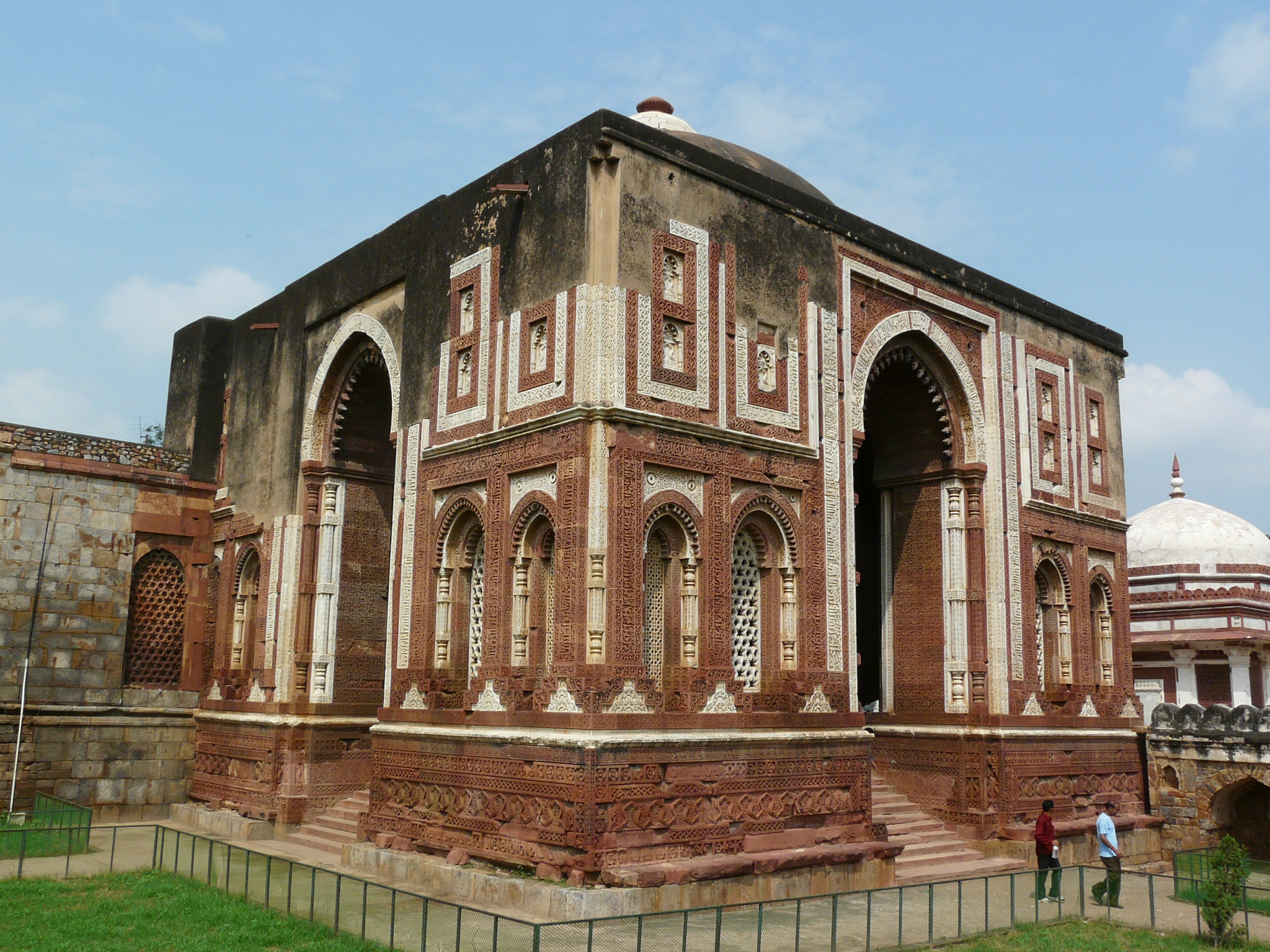 View from the south-west